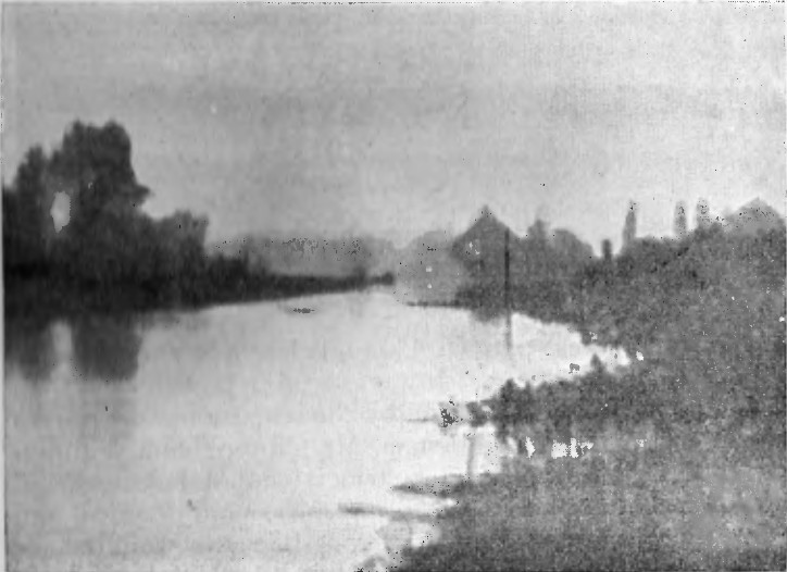 Picture of the Bedford Level, taken while attempting to prove the earth to be flat.